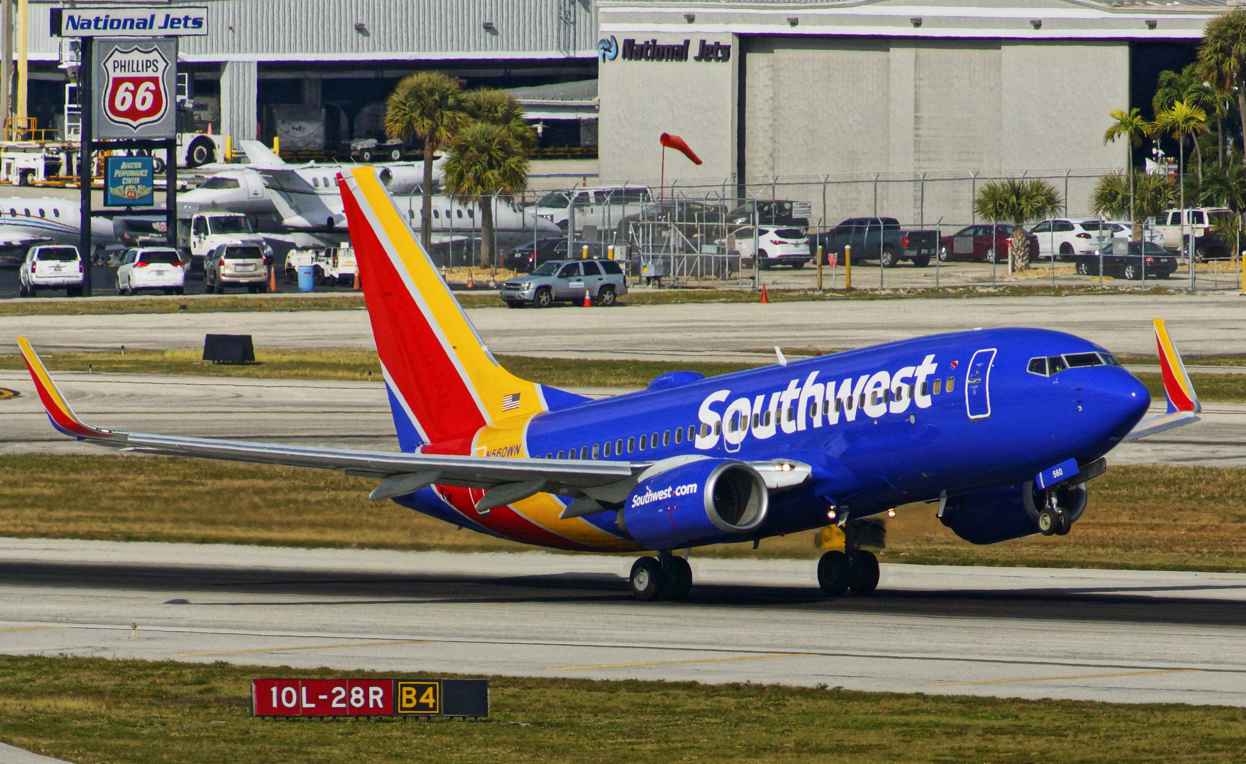 N560WN FLL JTPI 9036